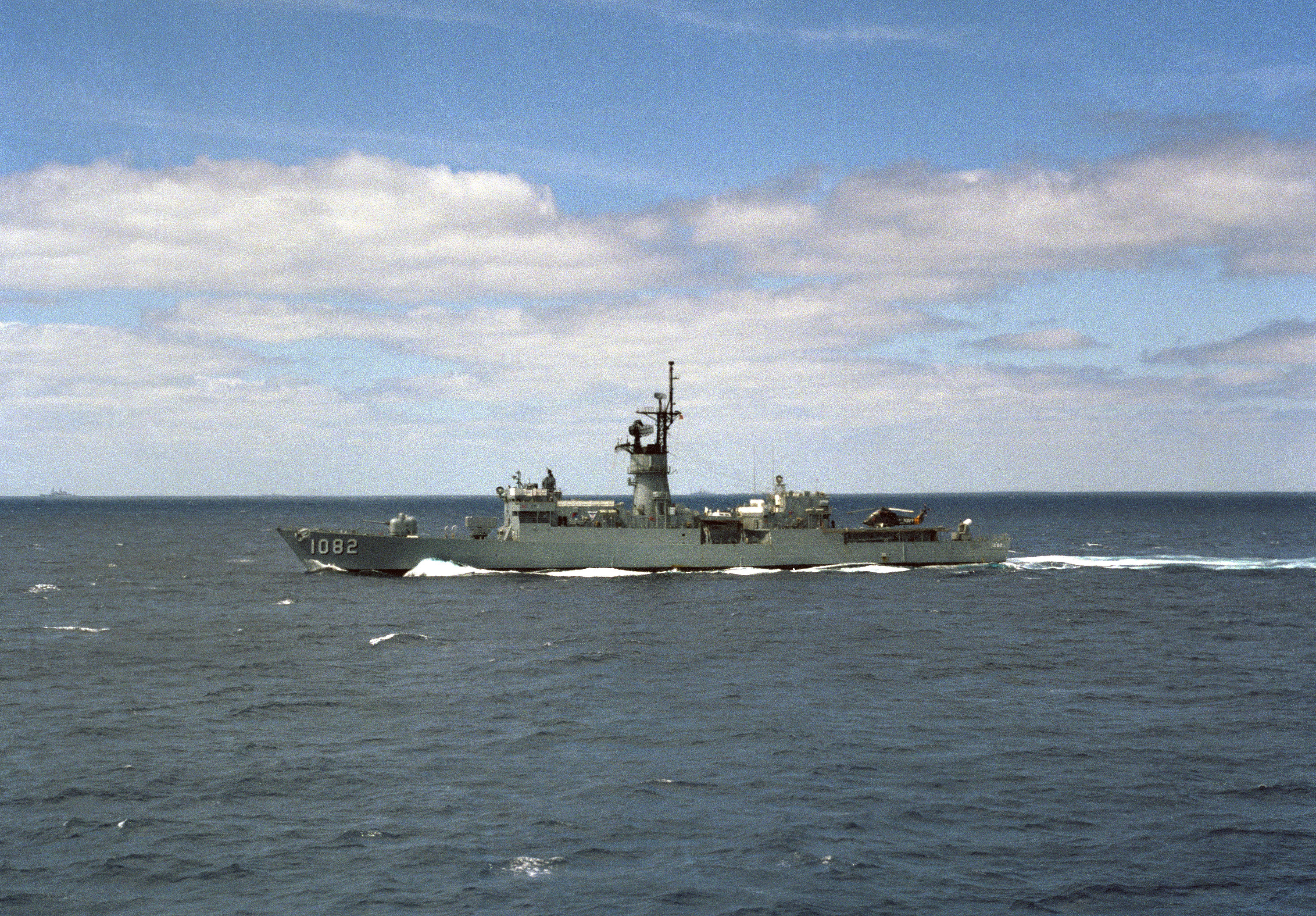 The U.S. Navy frigate USS Elmer Montgomery (FF-1082) underway off the Virginia Capes on 7 May 1985.